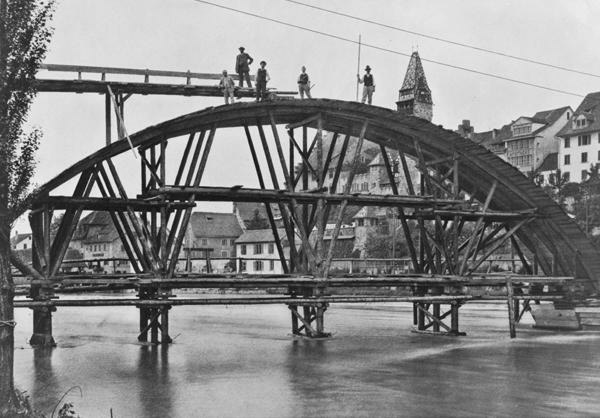 Construction of the railway bridge in Bremgarten, Switzerland, in 1911.